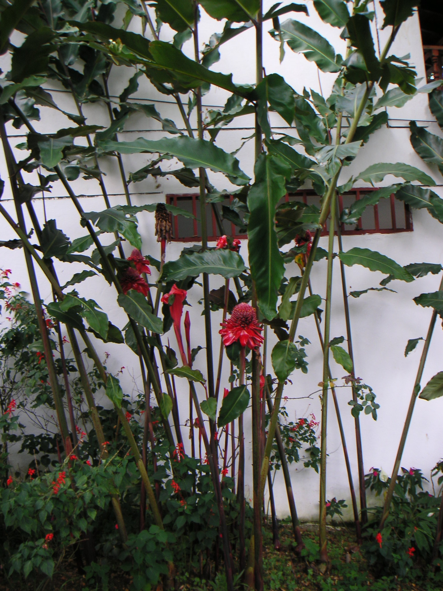 Etlingera elatior, Zingiberaceae, Cali / Kolumbien